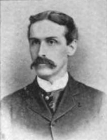 Photo of William Waugh Lauder, from an 1894 publication. Son of Abram William Lauder and Maria Elise Turner Lauder.